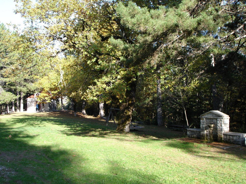 The church of Ai-Lias at Domnista village in Evritania, Greece. User:Ilias81 stated: I took the picture, I allow any use